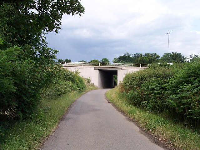 M5 coincident with Roman Road. Bridge over the road to Kempsey common.